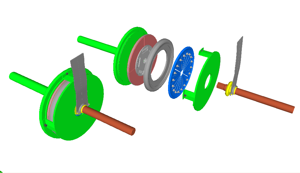 A snapshot of a 3D model of a car clutch. Uploaded to wikipedia with permission granted by the AT CAD Team.